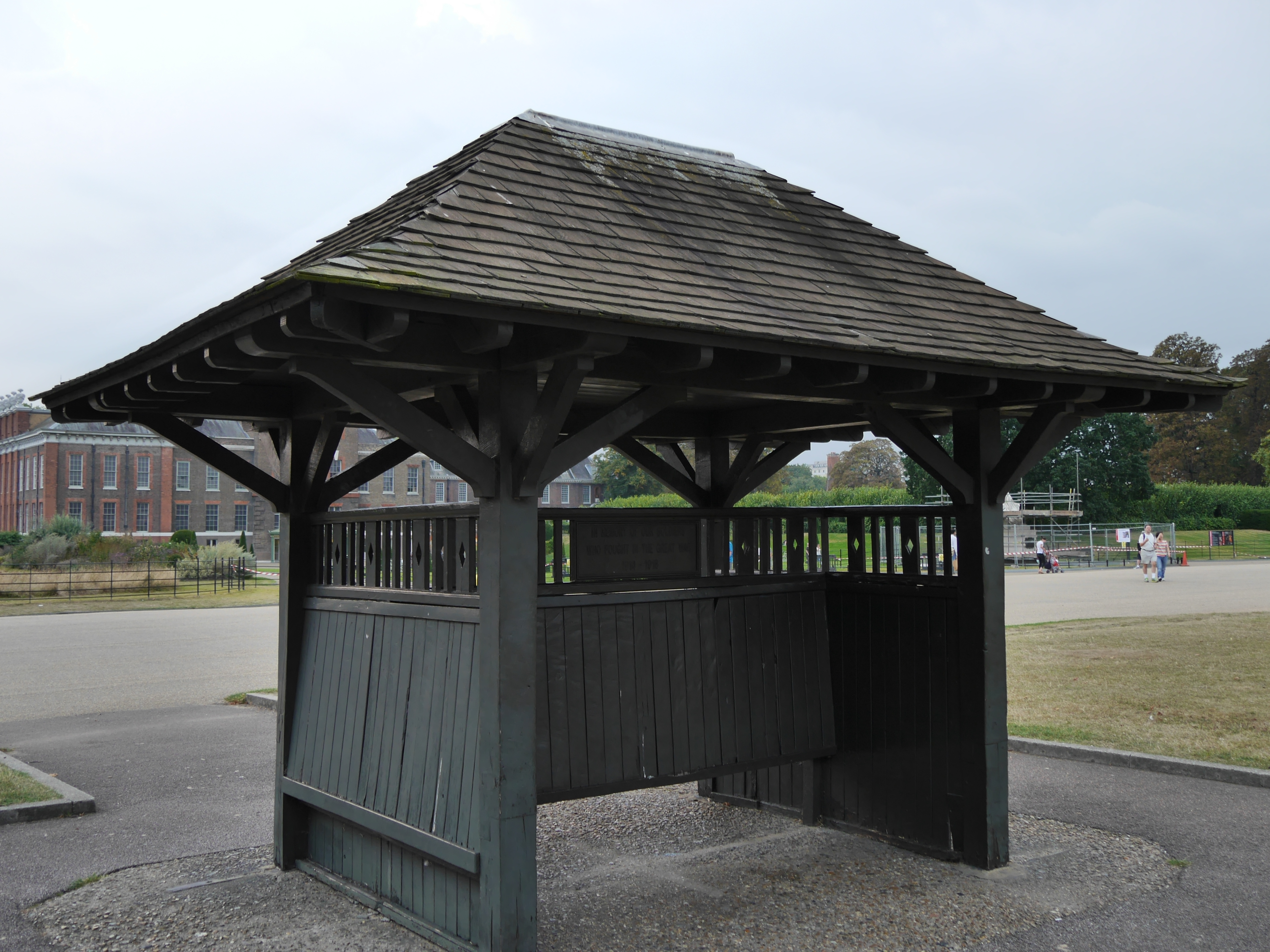 War Memorial Shelters, Kensington Gardens, September 2016